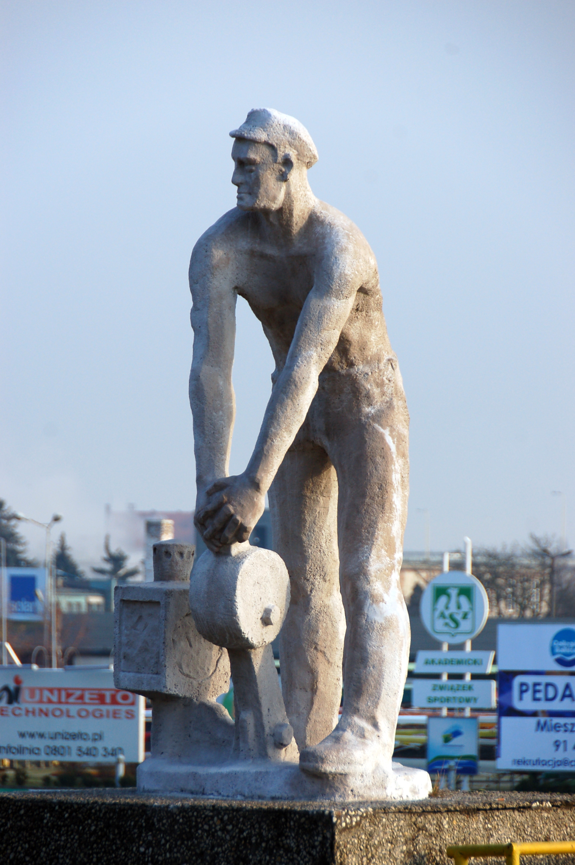 Stettin central train station